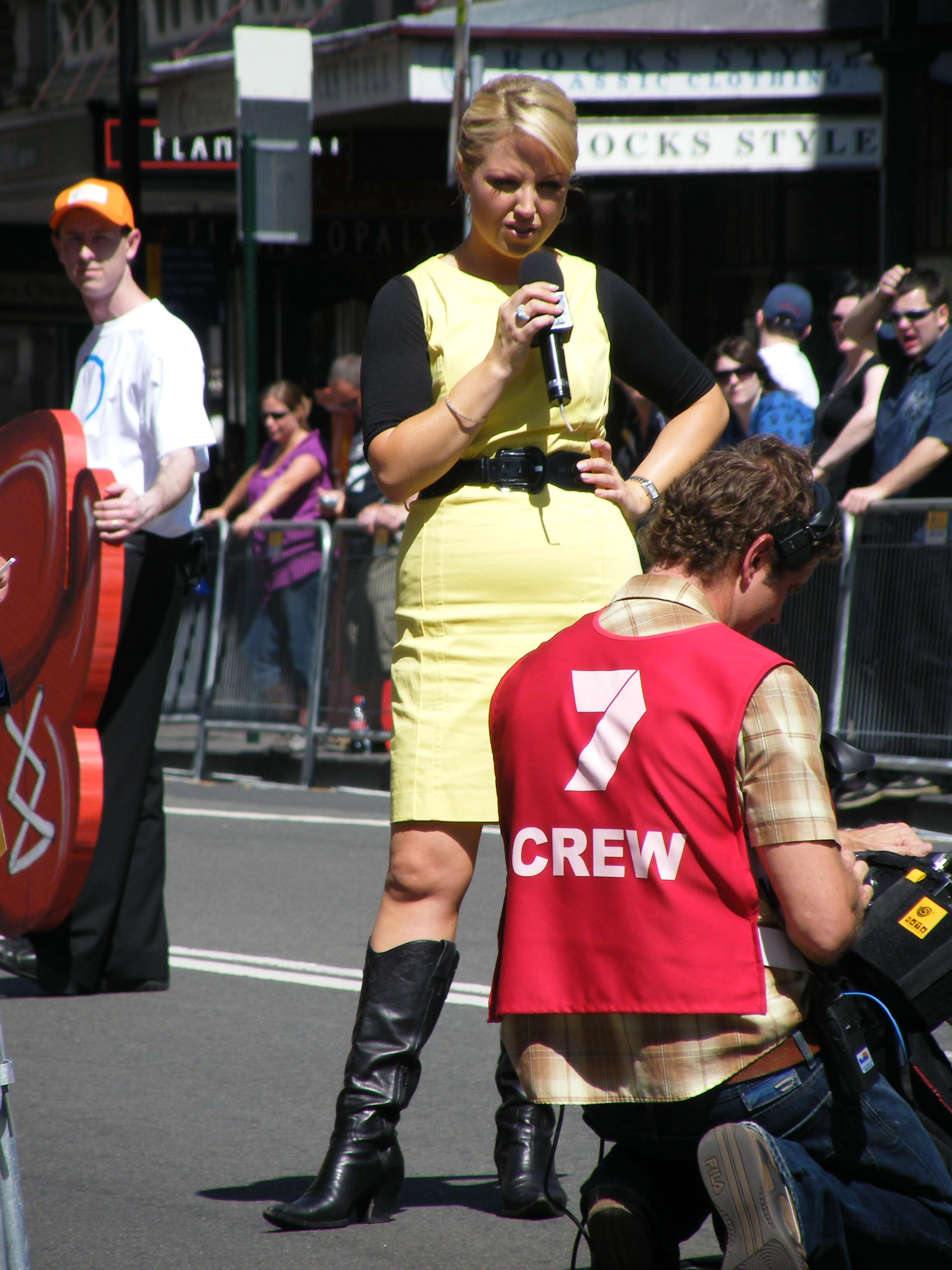 Parade of Australian Olympians - Sydney 2008 - ATN 7 Reporter Monique Wright.